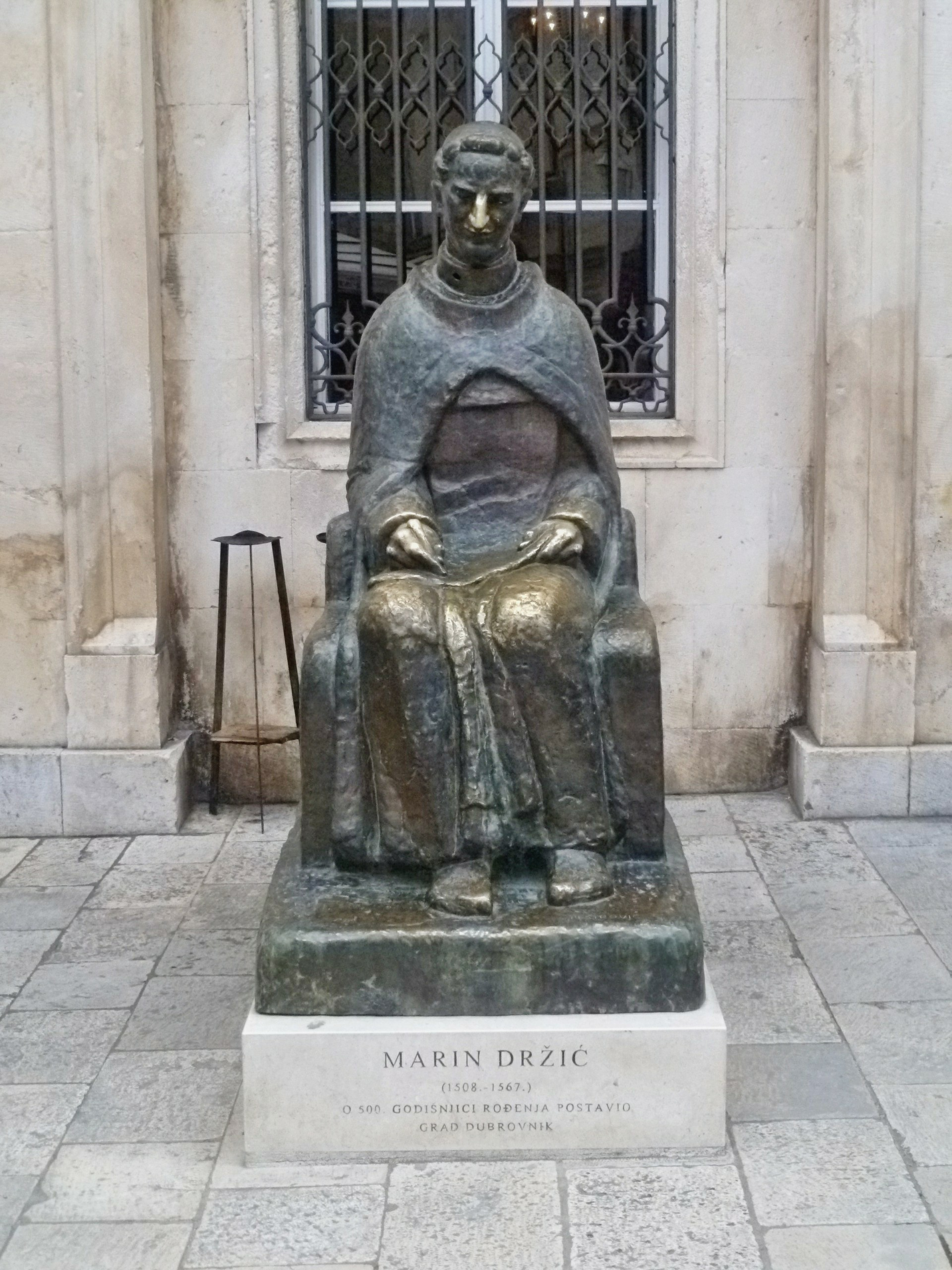 Statue of Marin Držić (1508-1567), a Croatian Renaissance playwright and prose writer; Dubrovnik, Croatia.